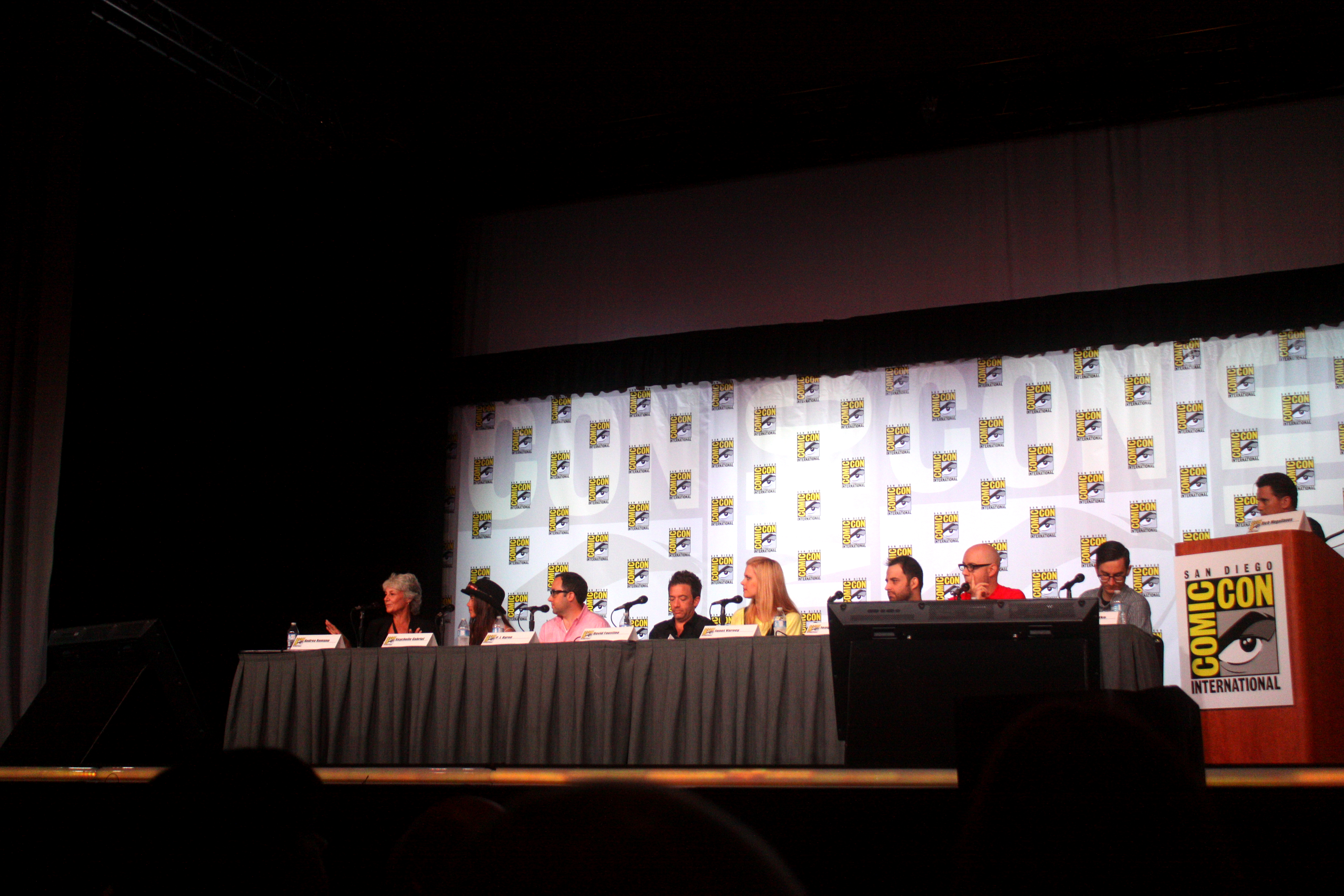 The Legend of Korra cast speaking at the 2012 San Diego Comic-Con International in San Diego, California.